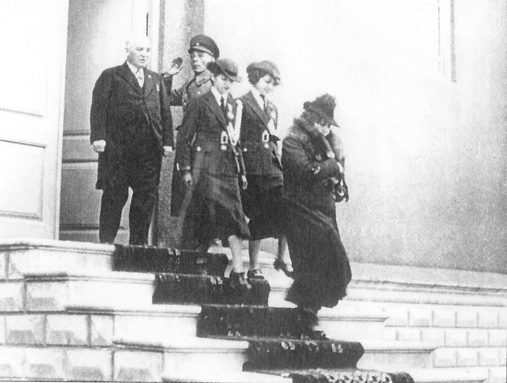 Shah Reza Pahlavi's wife and daughters leaving the palace the day when wearing chador was officially prohibited (January 7, 1936)